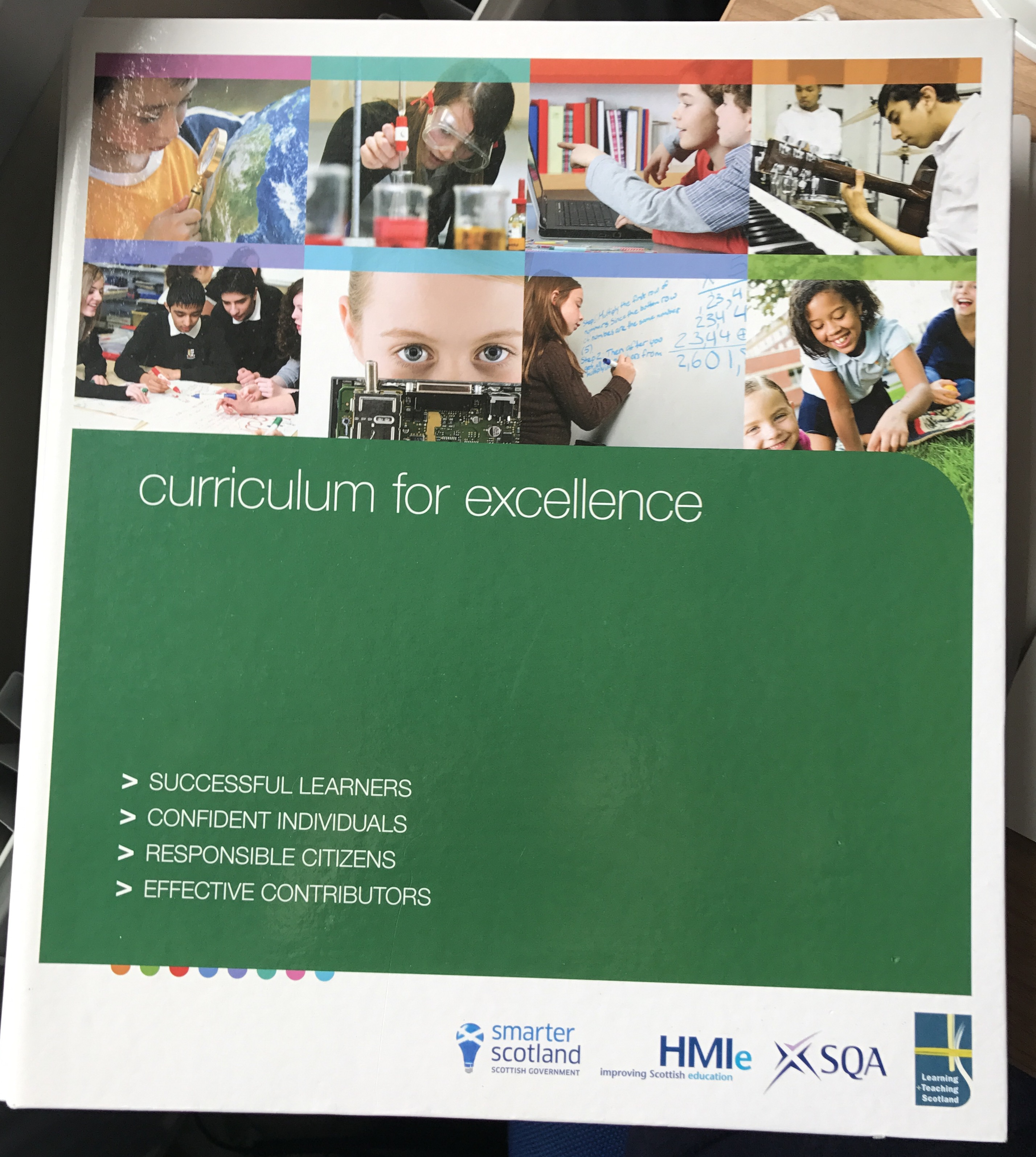 CfE Folder